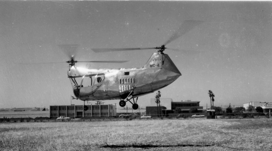 McCulloch YH-30 (company designation MC-4) helicopter undergoing company flight testing prior to delivery to the U.S. Army.